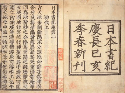 Two pages from the "Reigns of the Gods" chapters of the Nihonshoki jindai kan (Chronicles of Japan). One-volume, early movable-type edition with Fukurotoji (bag-style) binding. Momoyama period, printed 1599.